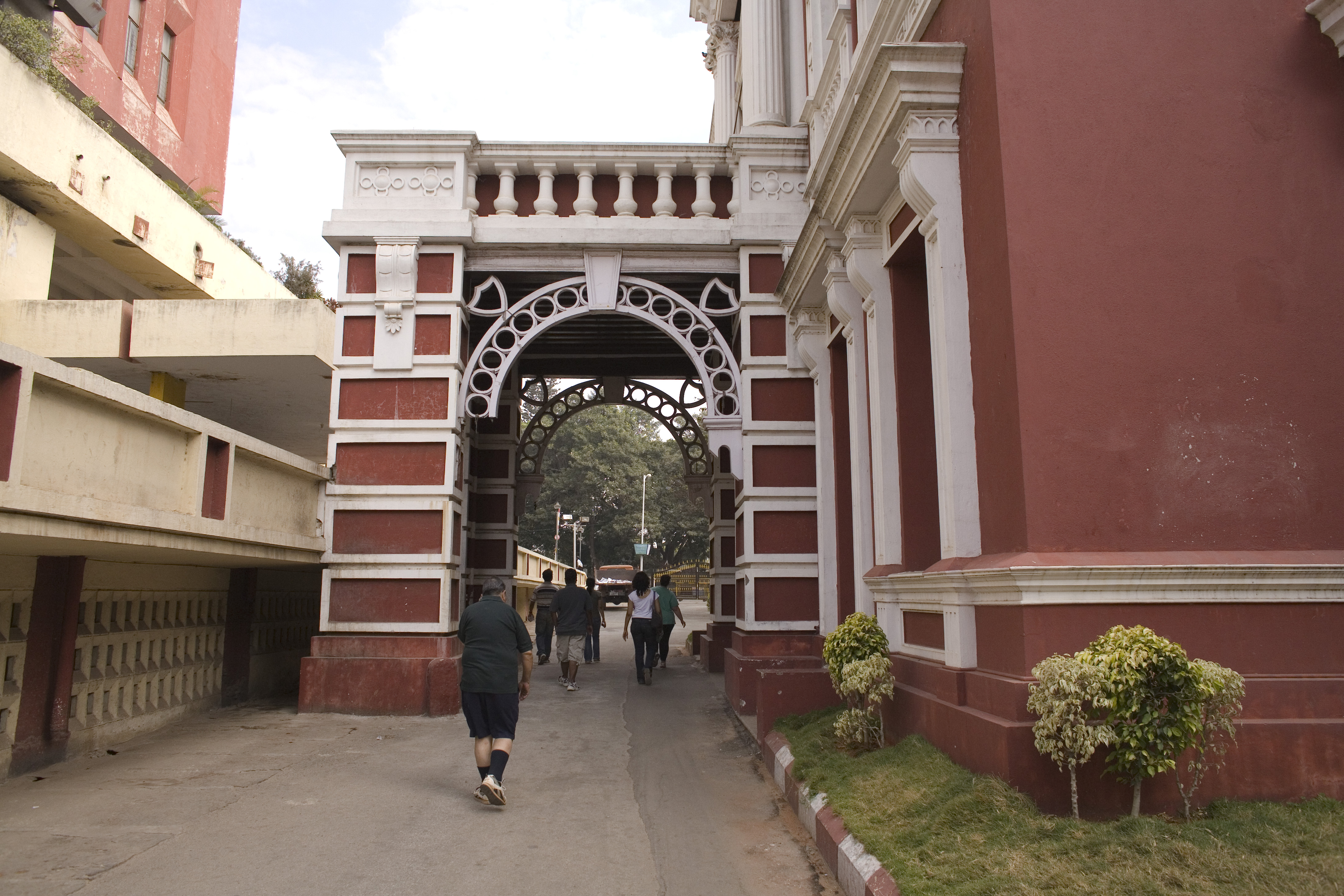 West side driveway showing arch